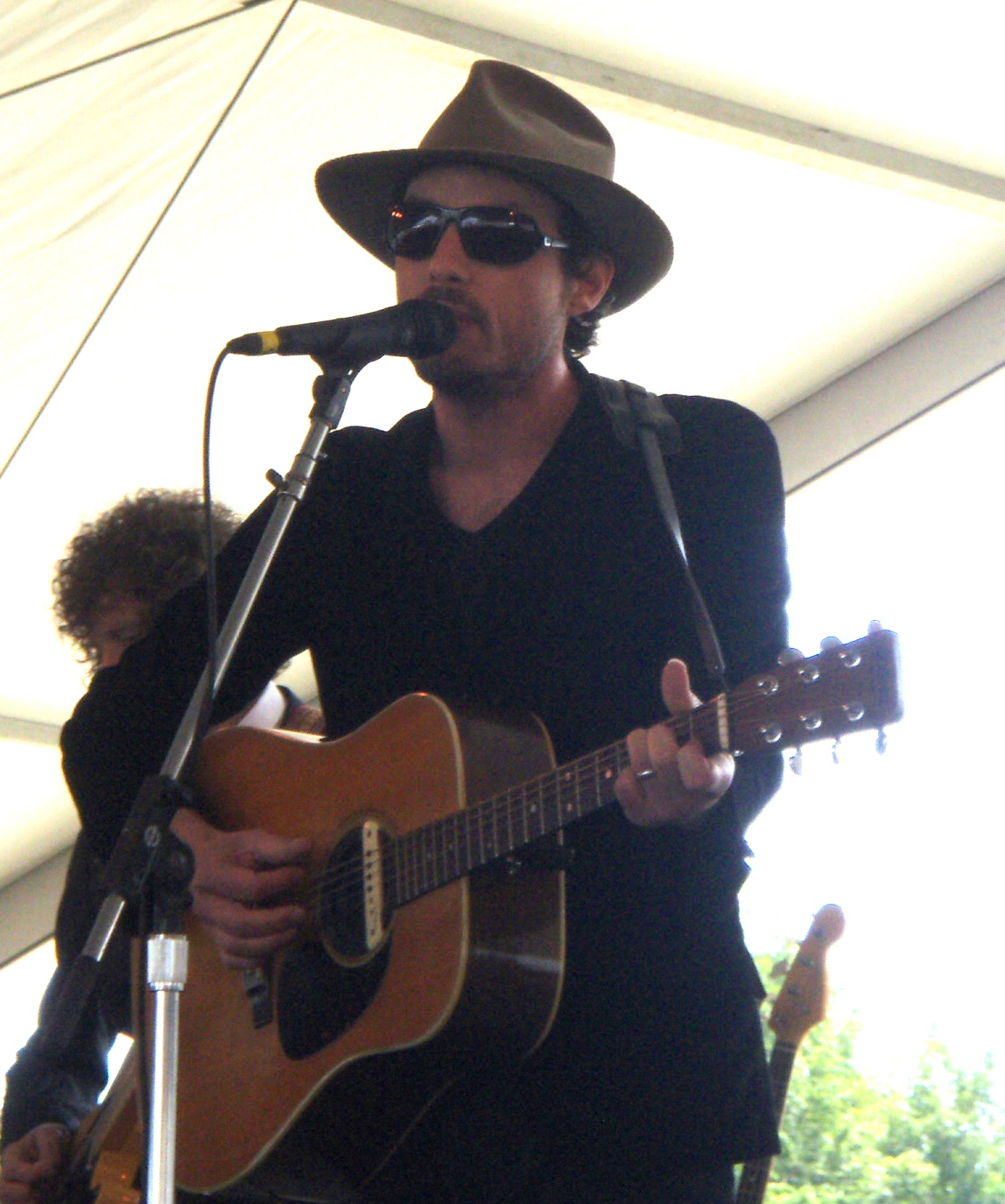 Jakob Dylan at the Newport Folk Festival (2 August 2008)